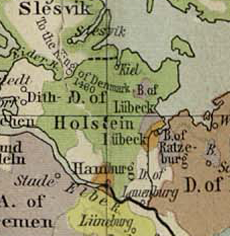 This map comes from the map collection of University of Texas, specifically from: Central Europe in 1477, from Historical Atlas by William R. Shepherd, 1926. It is in the public domain (